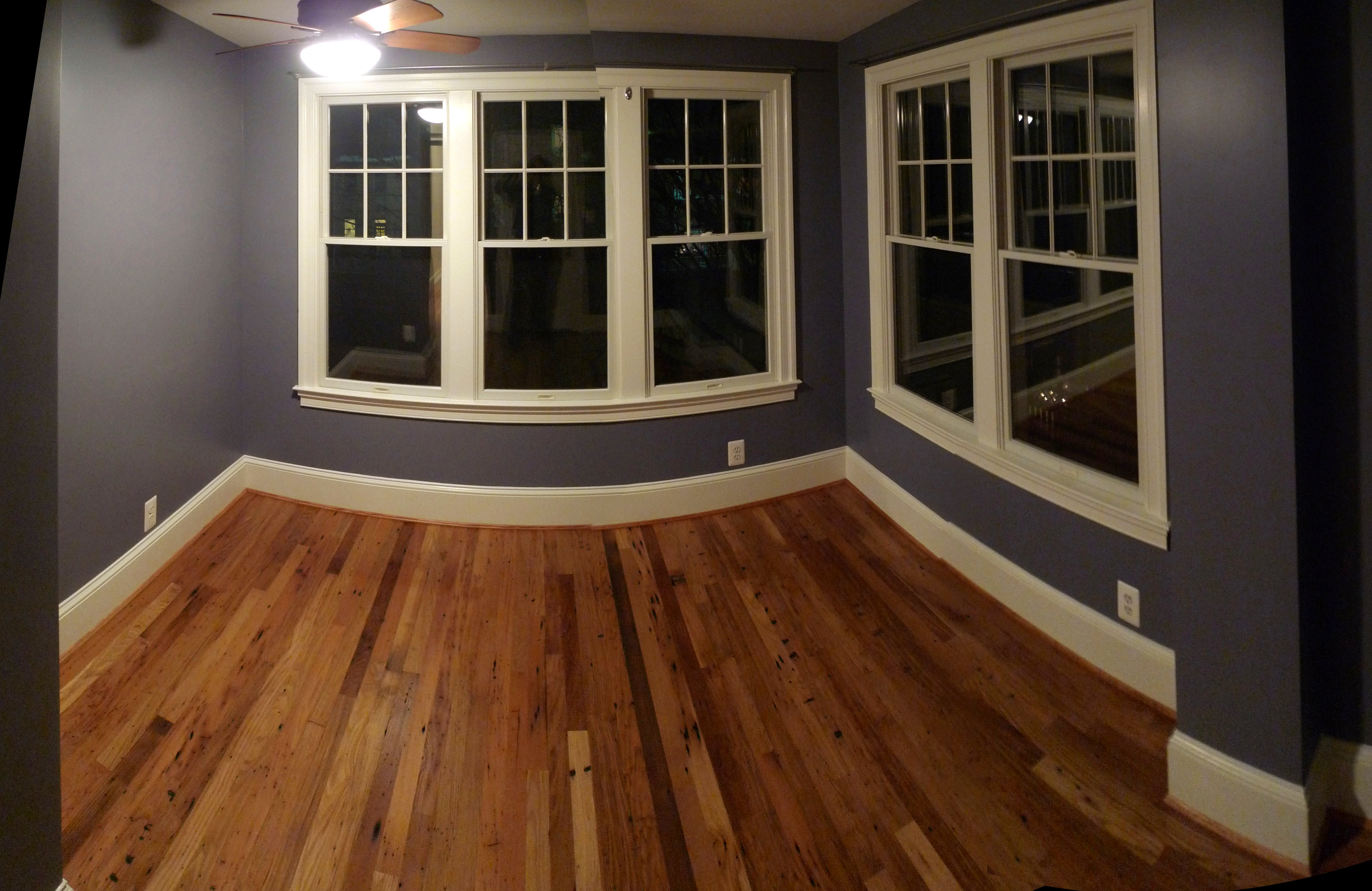 Reclaimed barn wood mixed hardwoods floor